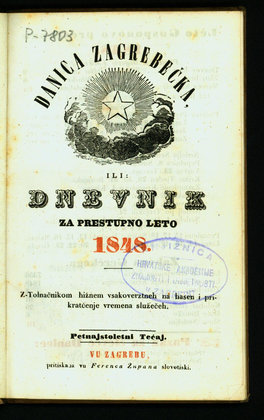 Danicza zagrebechka, Kajkavian Croatian calendar in 1848. Editor: Ignac Kristijanović